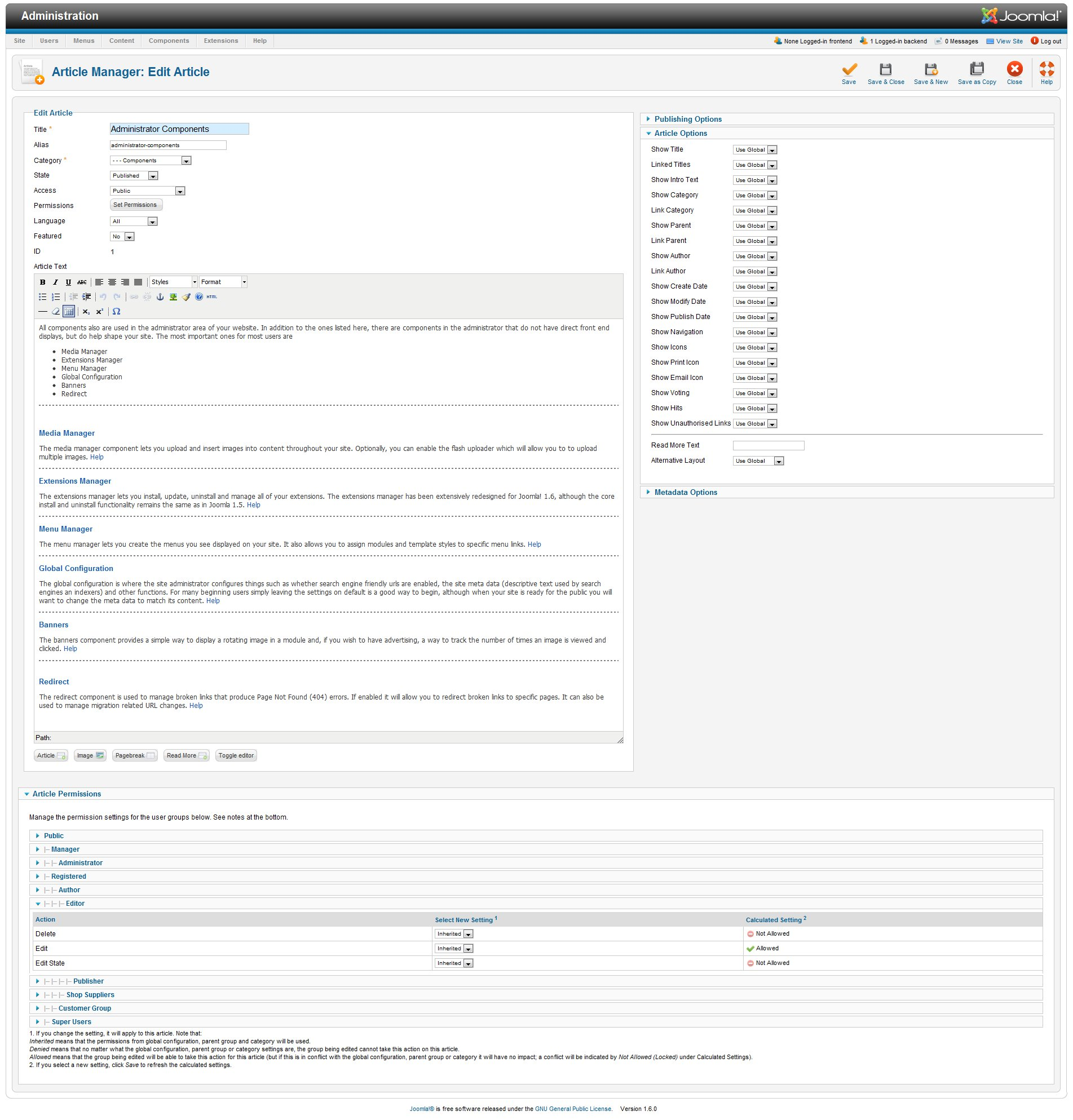 Edit article Joomla 1.6 в Front-End